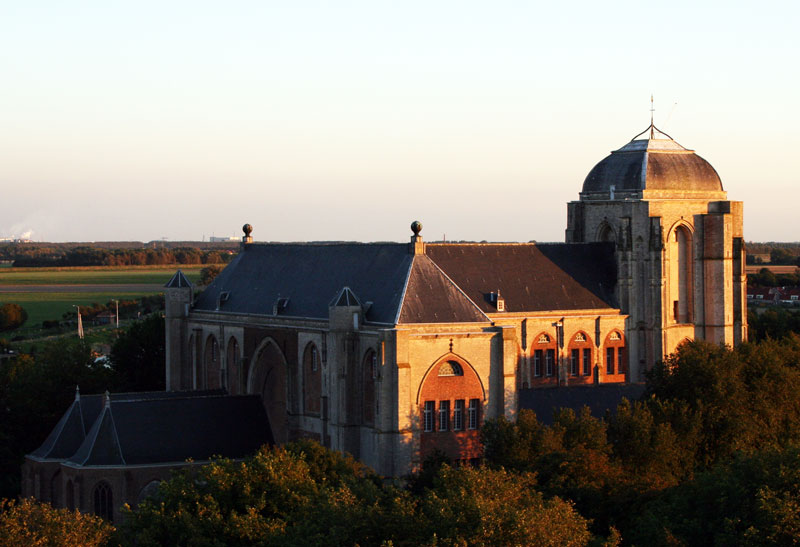 Big Church of Veere